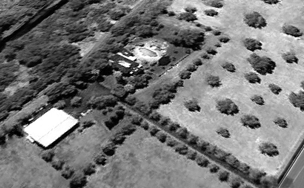 The Griffith Mansion in Yolo / Cacheville CA, built 1886. Now owned by the Tornincasa family. Aerial of property.